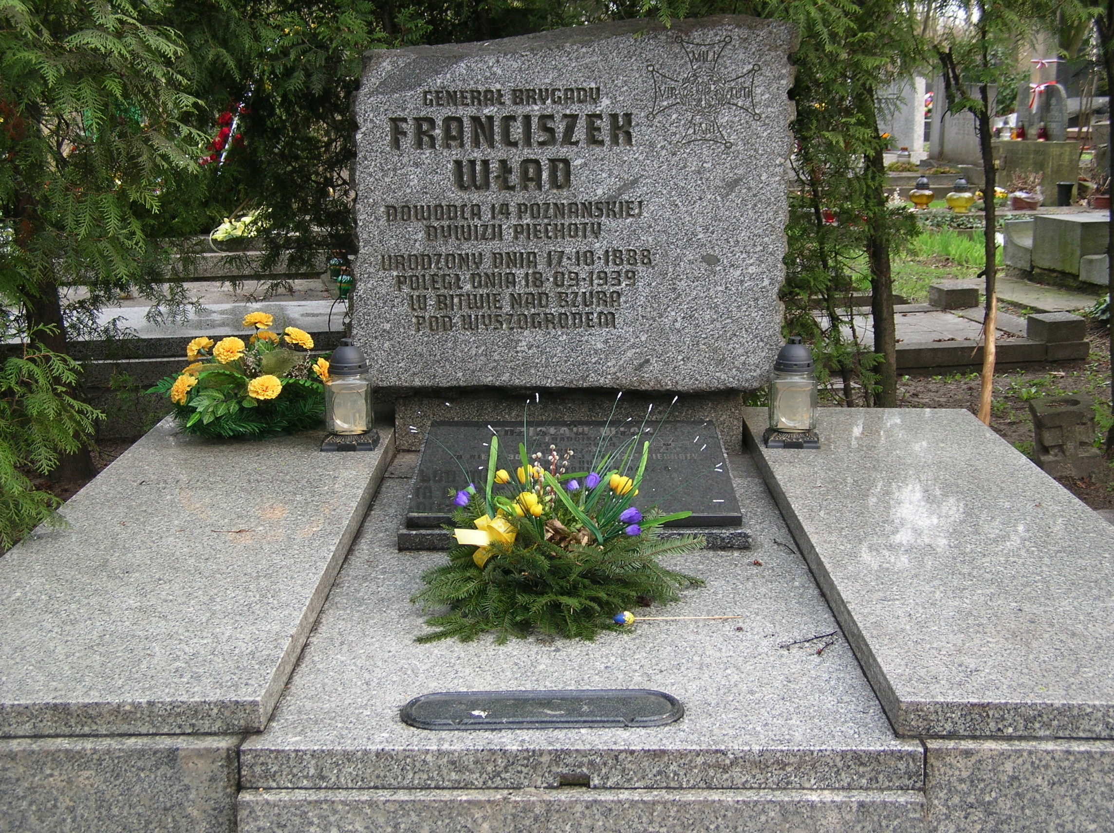 Tomb of Franciszek Wład